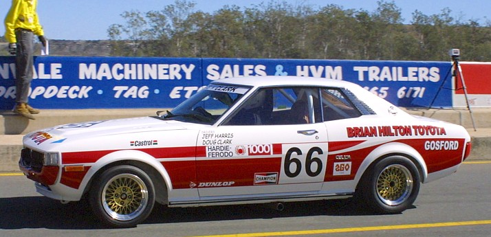 Doug Clark's Toyota Celica Group C Touring Car